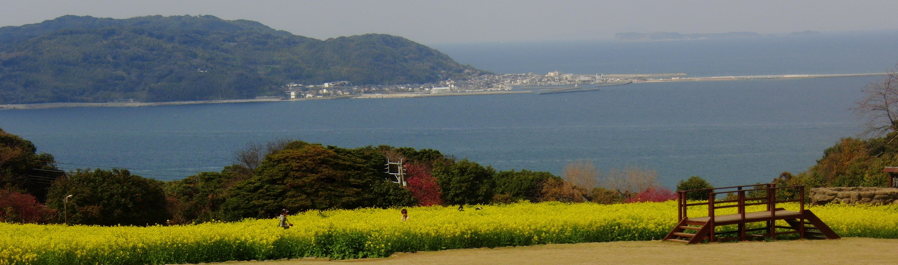 Shikanosima Island and Umino Nakamichi looked from Nokonoshima Island park, Fukuoka, Japan